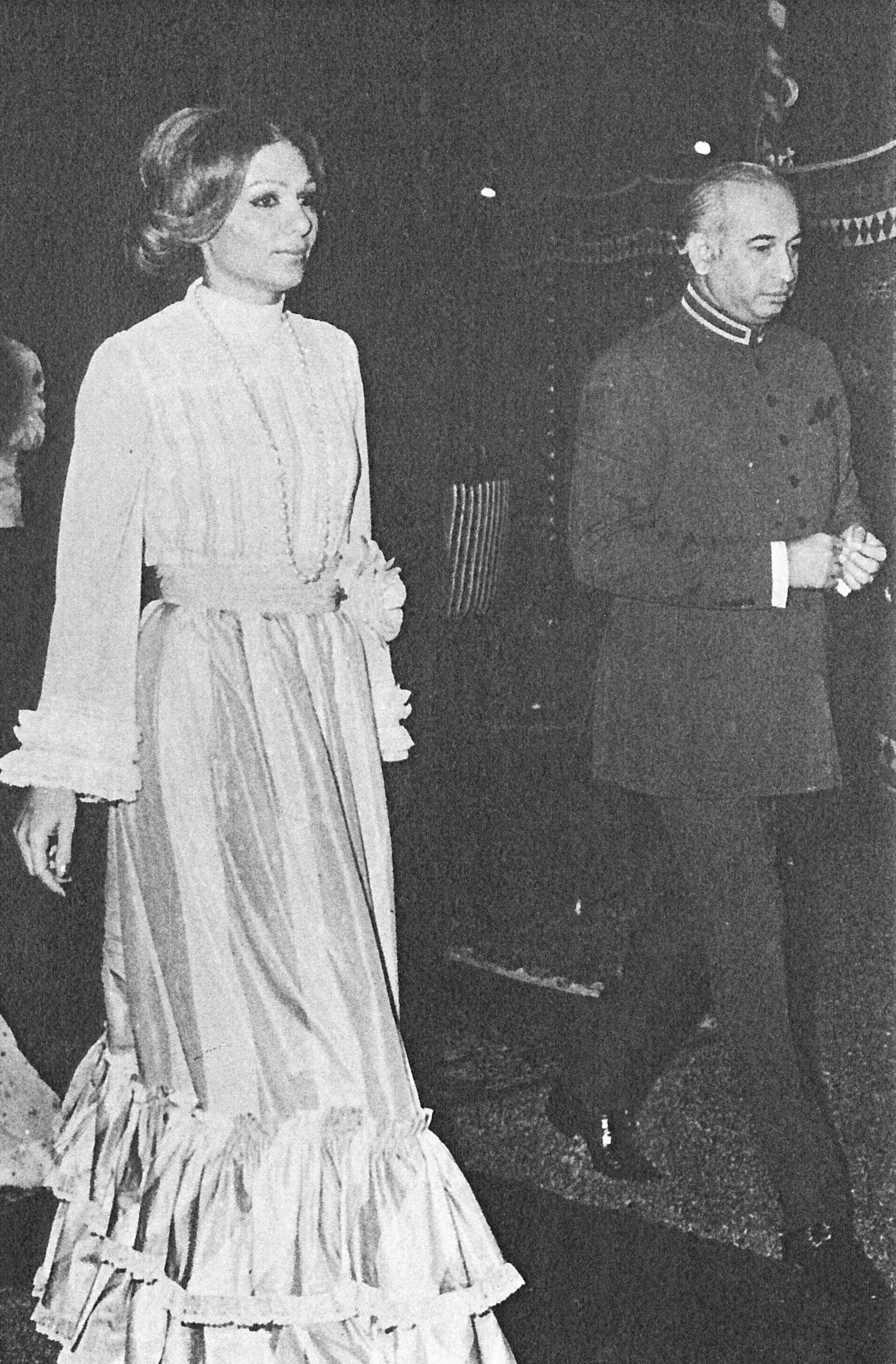 Queen Farah Pahlavi meets Zolfaghar Ali Bhutto